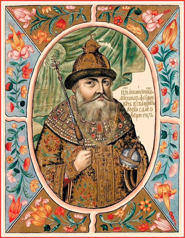 Mikhail I. Fyodorovich Romanov (Russian: Михаи́л Фёдорович Рома́нов) Mikhail Fedorovich Romanov (12 July 1596 – 13 July 1645), the first Russian Tsar of the house of Romanov (1613 - 1645)